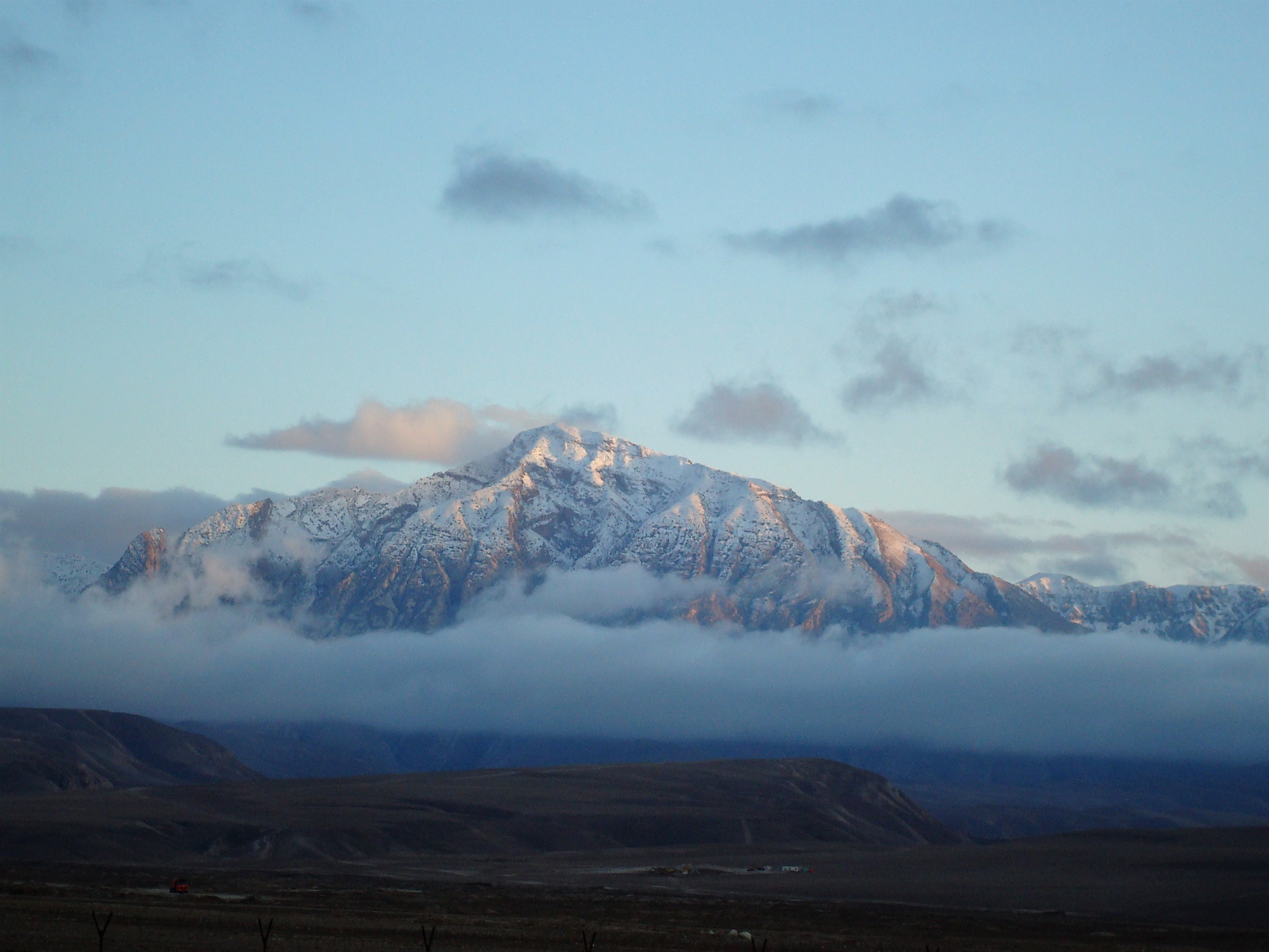 Marmal mountains viewed from Bundeswehr base Camp Marmal at Mazar-e Sharif in Afghanistan